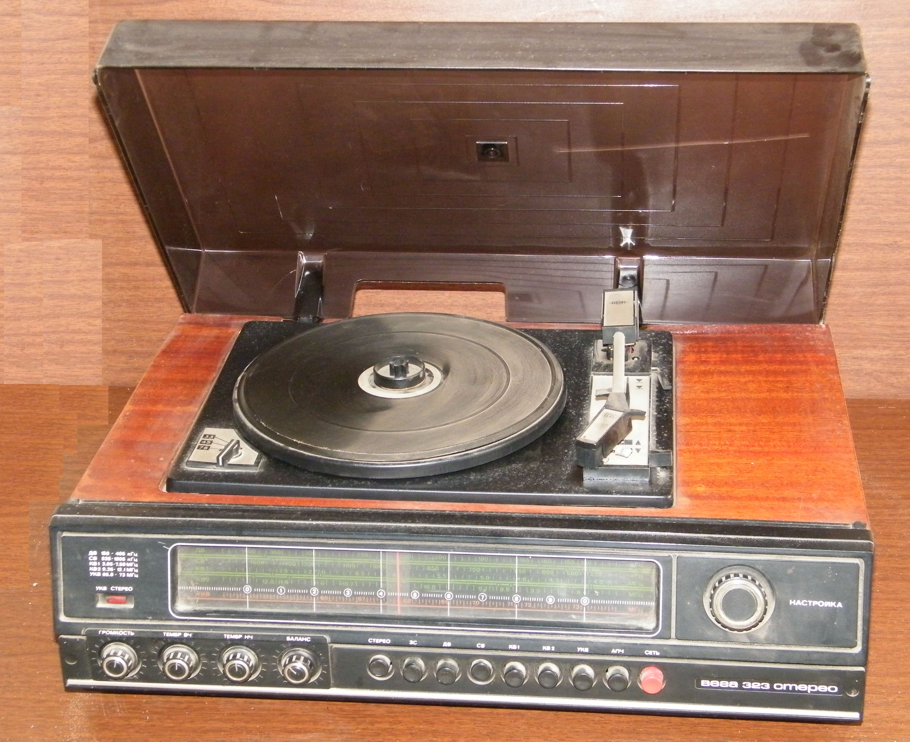 Вега-323 стерео